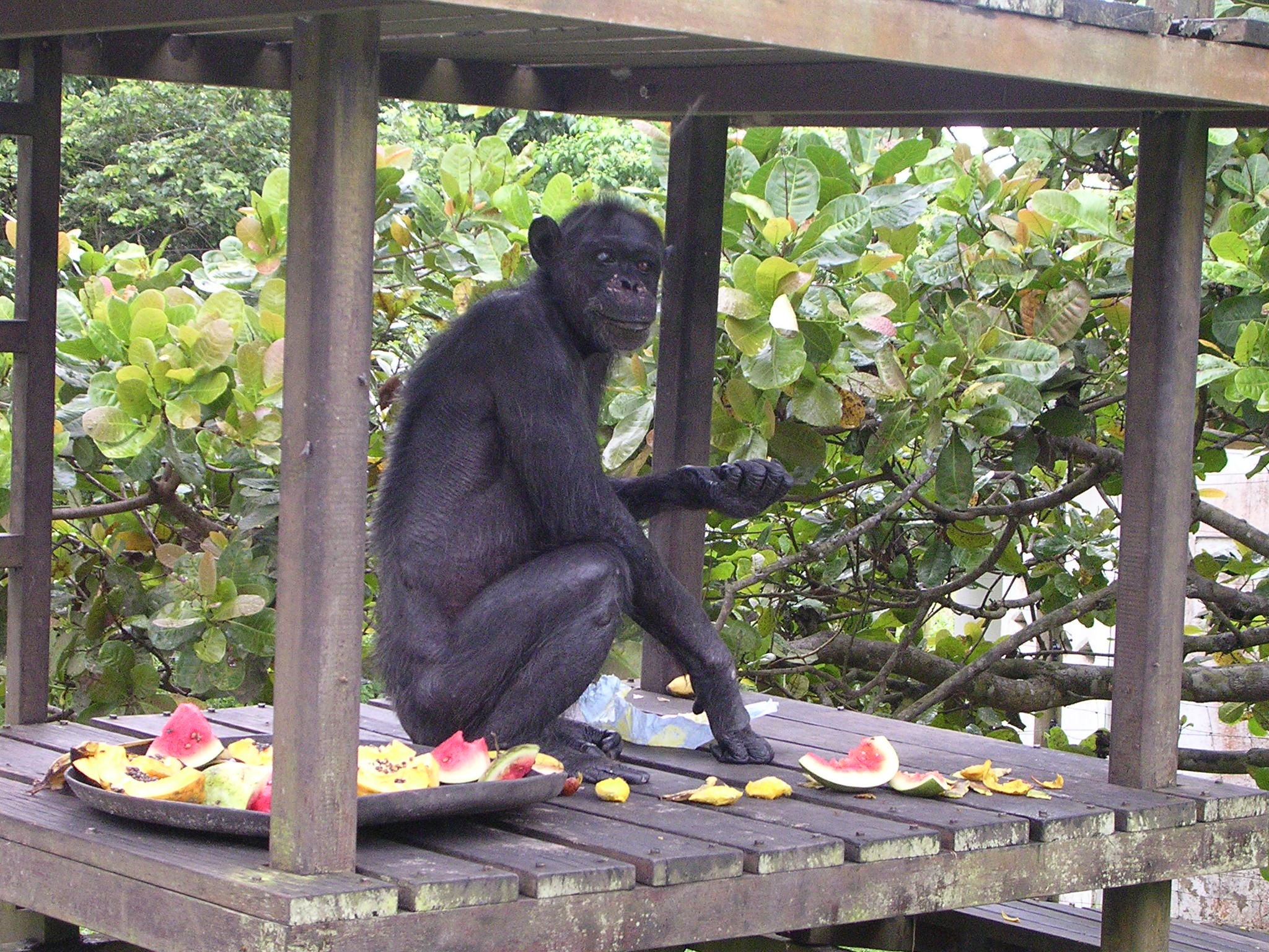 Chimpanzee named "Gregoire" born in 1944 (Jane Goodall sanctuary of Tchimpounga in Congo Brazzaville) - Picture taken the 9th of December 2006